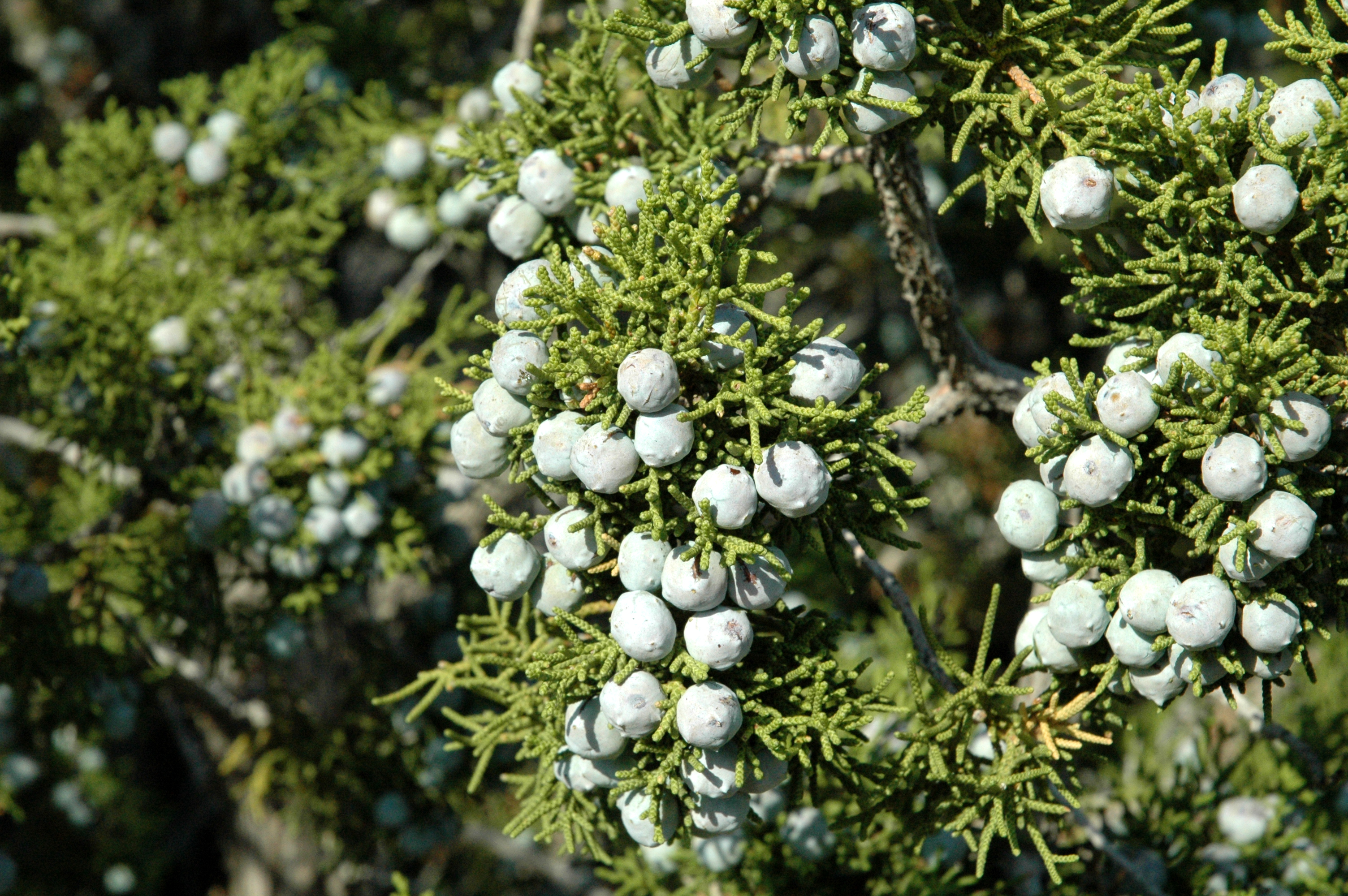 A California Juniper tree found at the parking area of the hiking trail to Lost Horse Mine, Joshua Tree National Park, California.